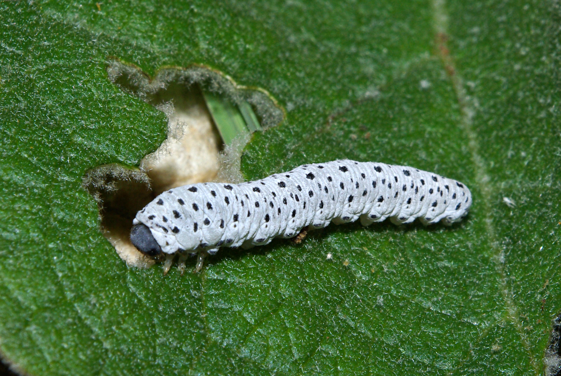 Caterpillar of Sawfly Tenthredo scrophulariae on common mullein (Verbascum thapsus), León (Spain).